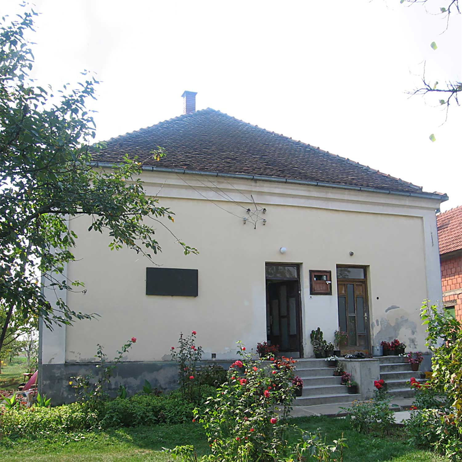 The building of old school in Toponica, Knić